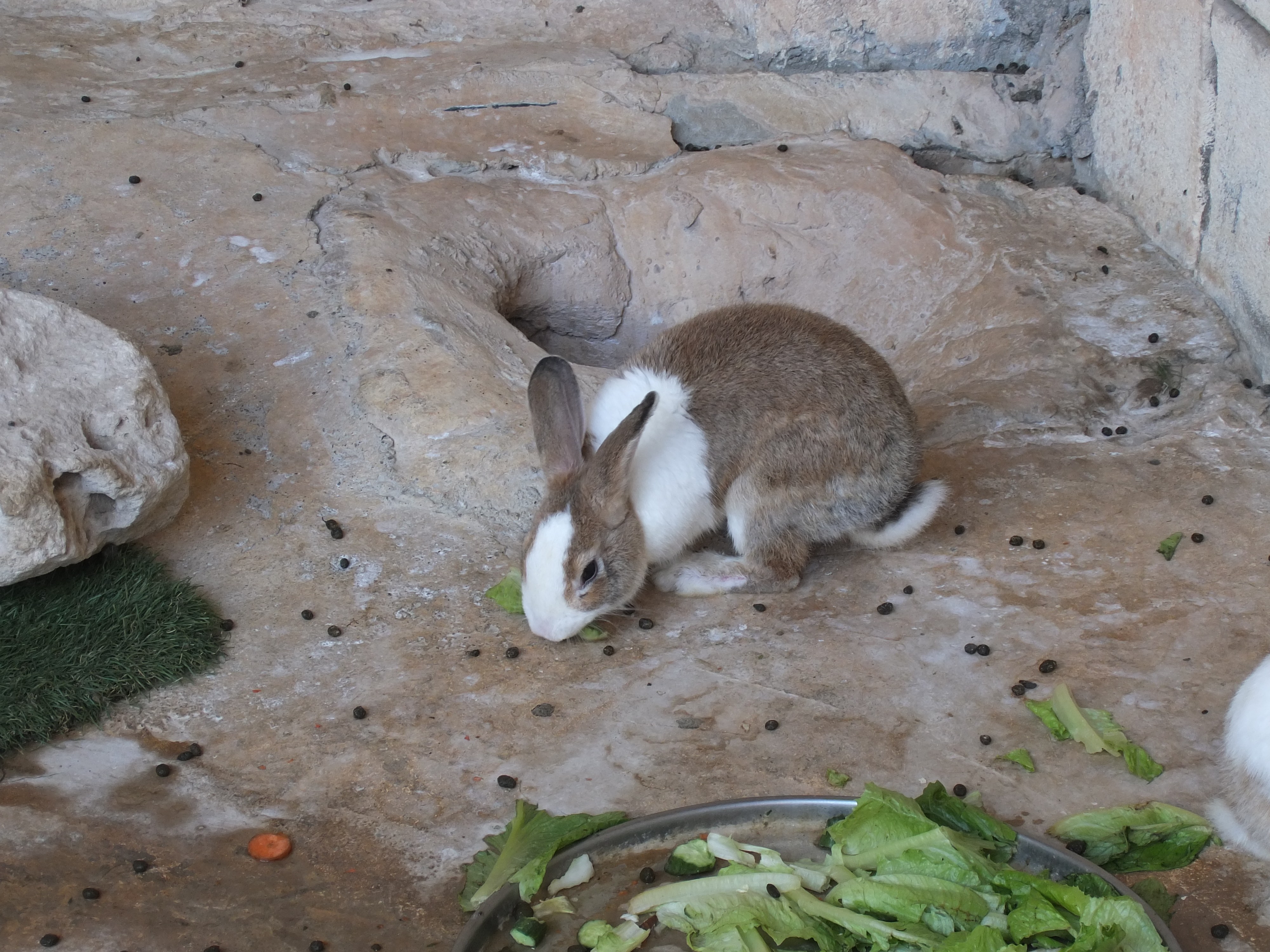 Dutch rabbit. Emirates Park Zoo